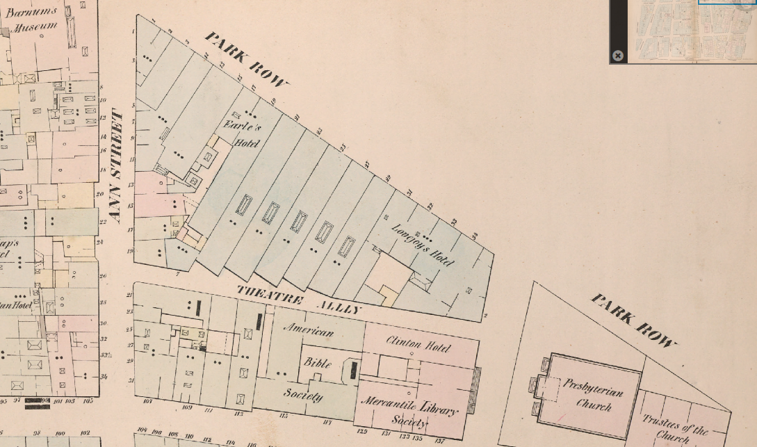 Excerpt of 1852 New York City map, Volume I, Plate 6, showing location of "Lovejoy's Hotel" at Park Row and Beekman.